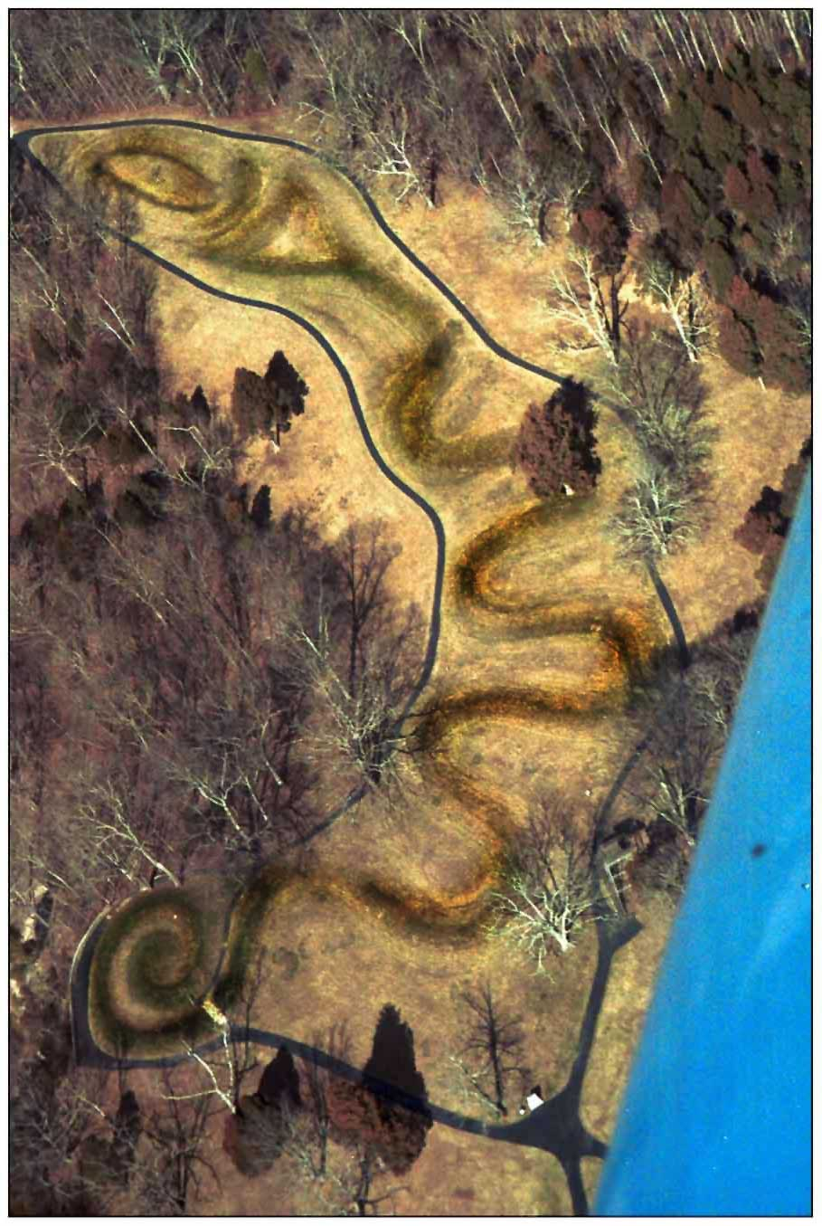 View of the The Great Serpent Mound, one of the most important prehistoric effigy mound od Adema Culture, located on the Ohio river, Ohio, USA.